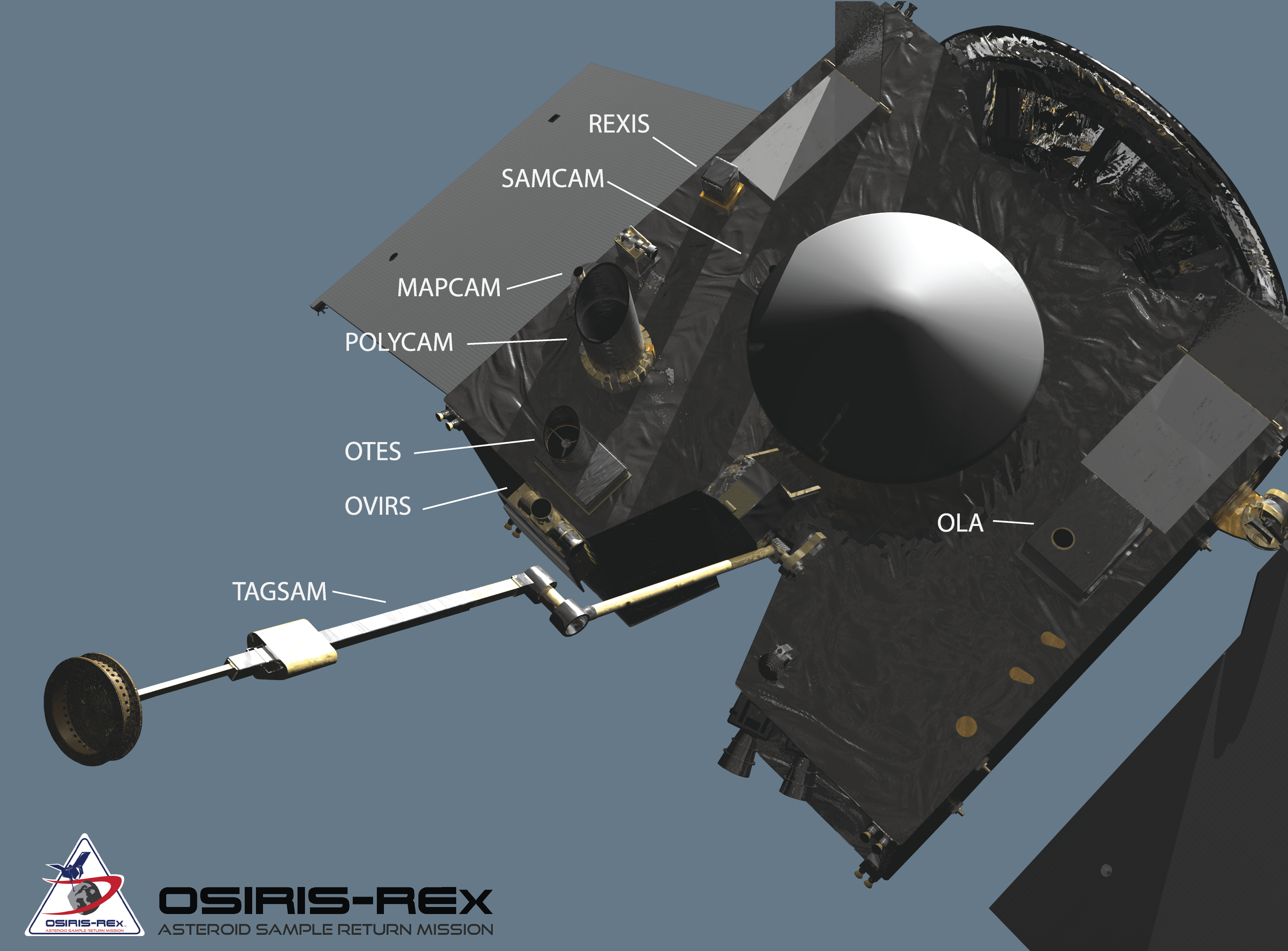 Illustration of the instrument deck on OSIRIS-REx